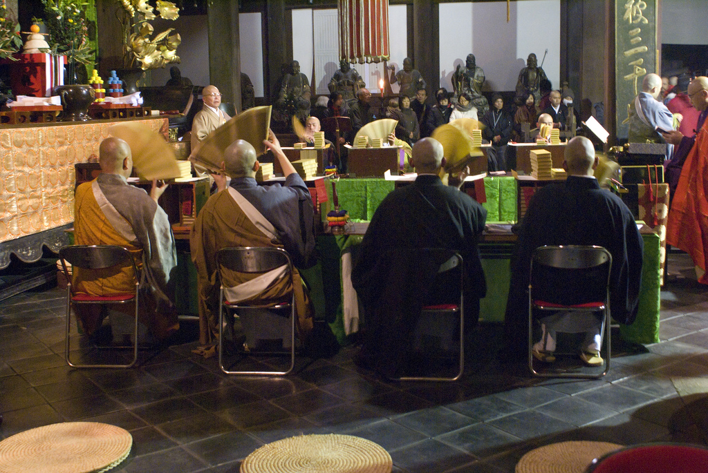 Monks and priests of Mampukuji of the Obaku sect/school reciting sutras on New Years assembly 2008